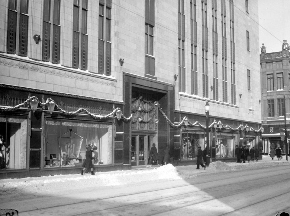 We see the shop front Dupuis Frères de la Sainte-Catherine Street in Montreal. It is decorated with Christmas garlands.